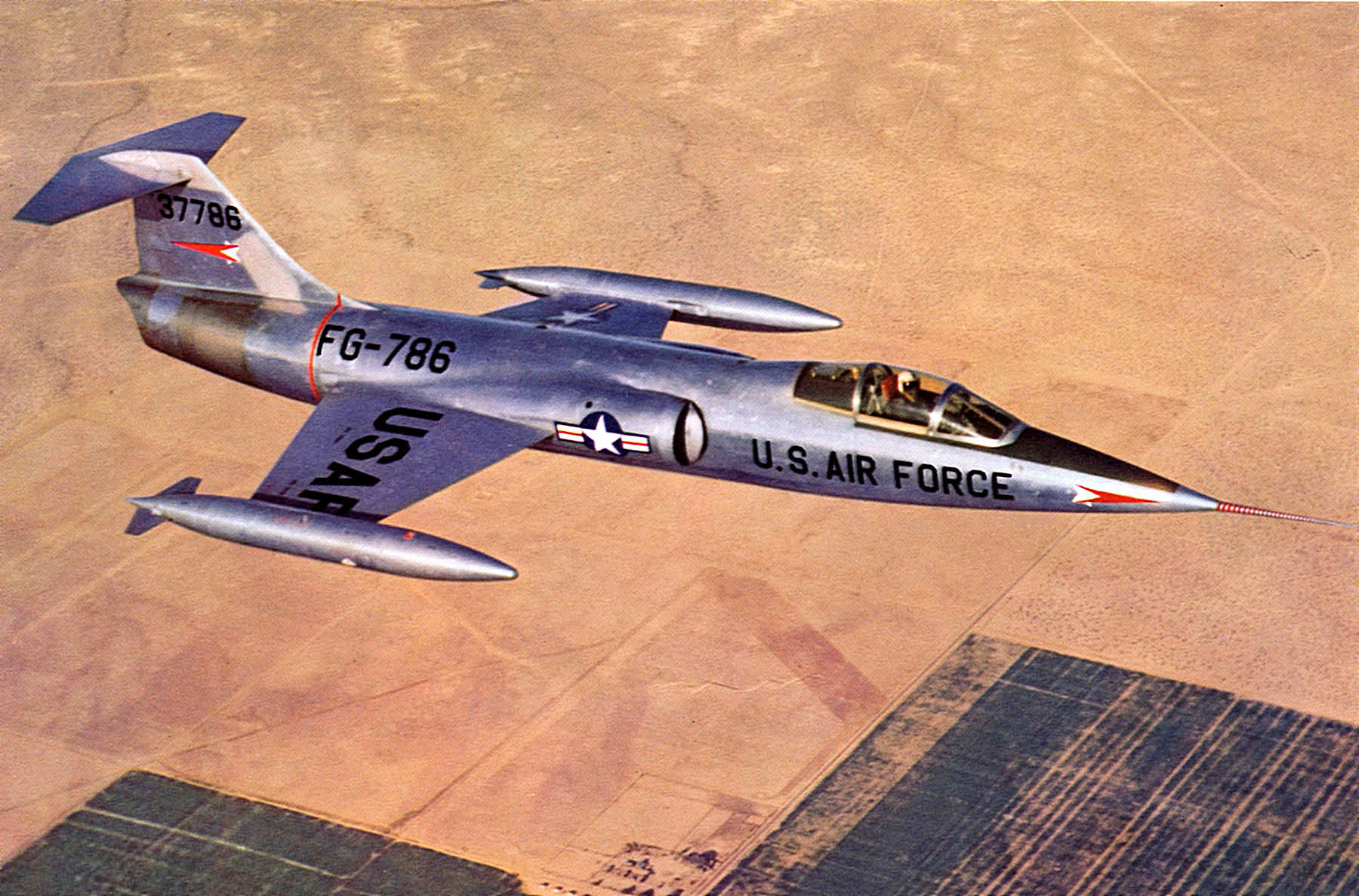 Lockheed XF-104 (S/N 53-7786) in flight. This aircraft crashed on 11 July 1957 due to uncontrollable tail flutter. The pilot, Bill Park, ejected safely.